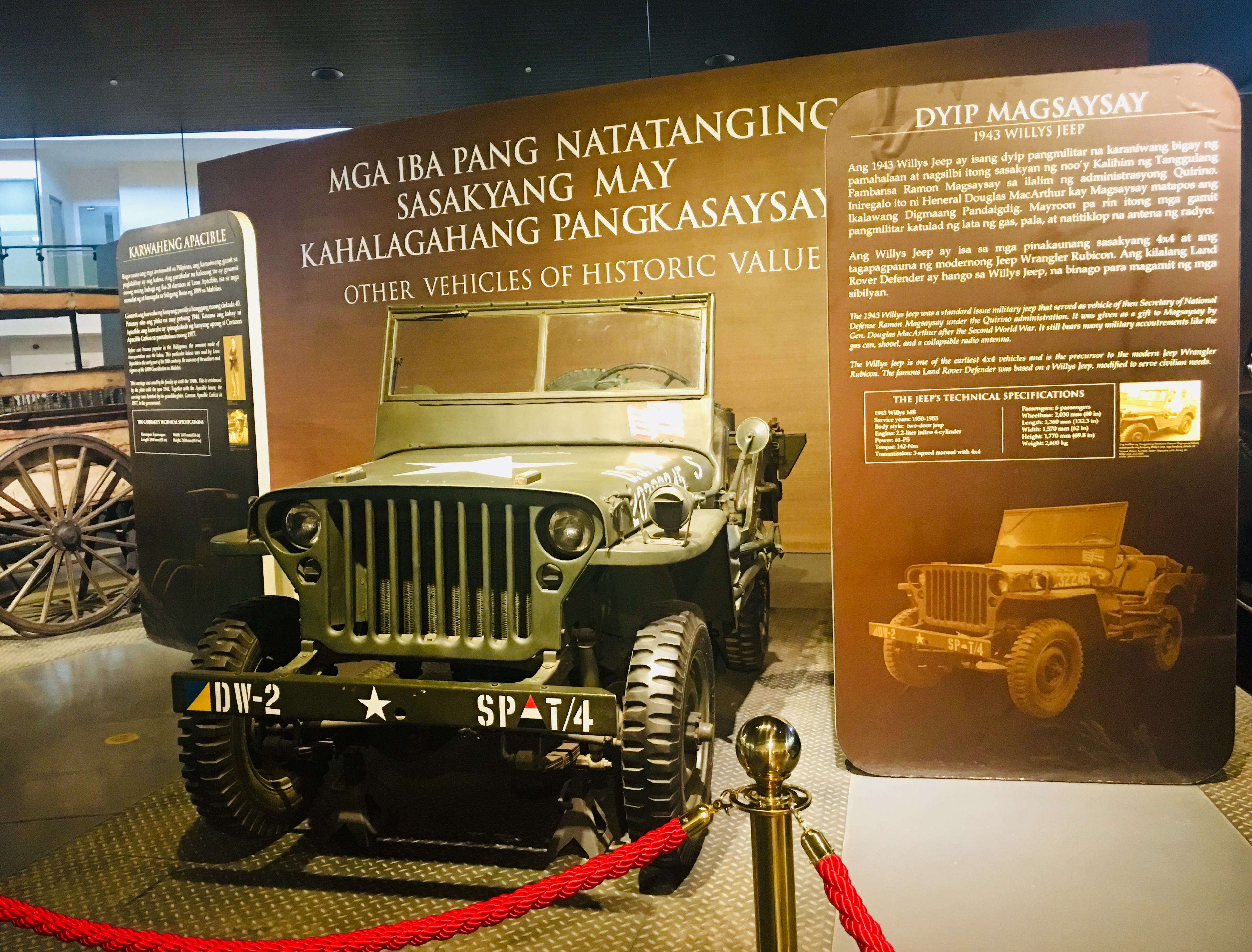 Willy’s Jeep of Ramon Magsaysay